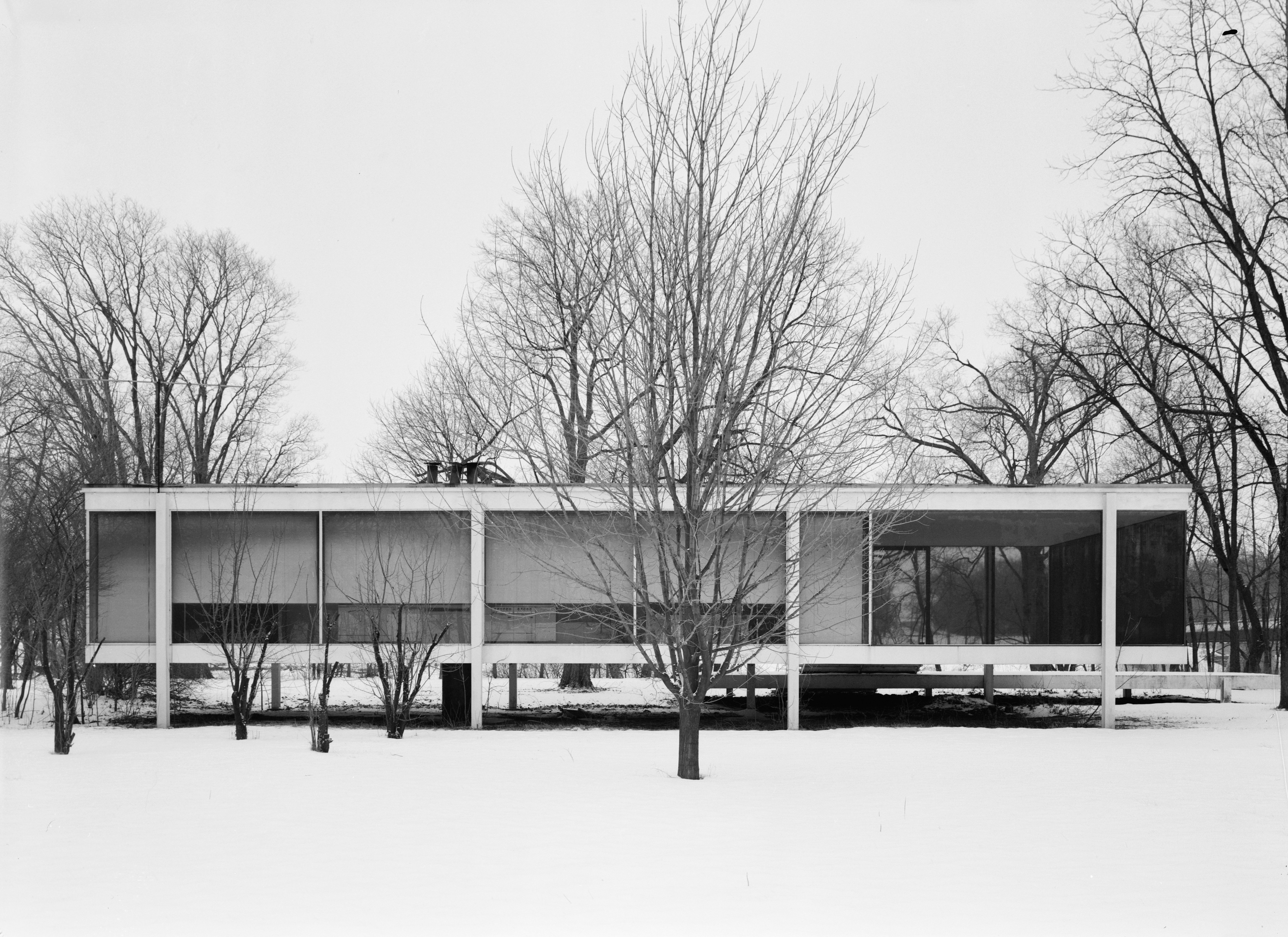 Edith Farnsworth House, Fox River & Milbrook Roads, Plano vicinity, Kendall County, Illinois - north elevation. Designed by Ludwig Mies van der Rohe